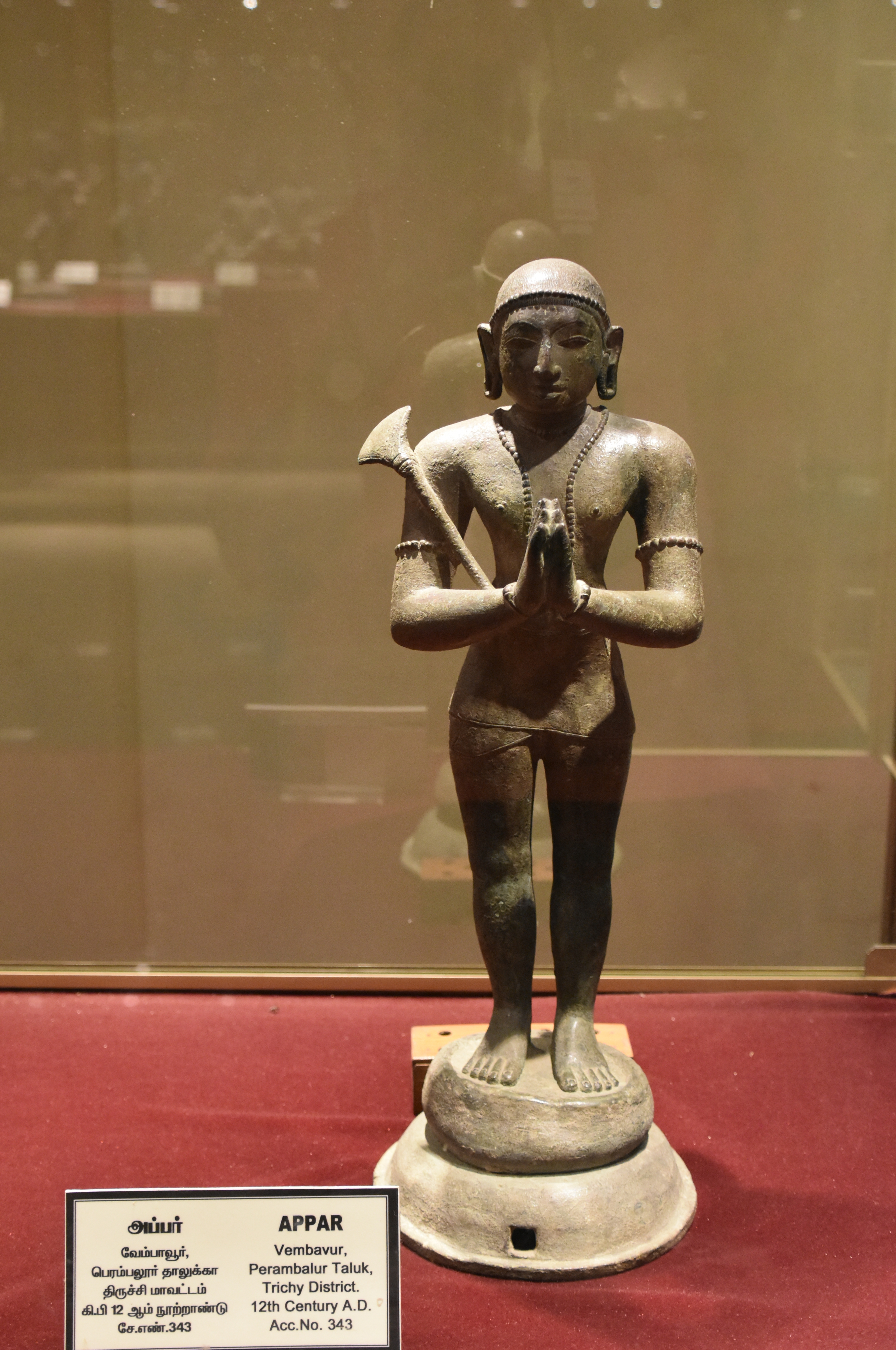 Appar, Chola period bronze, 12th century, Government Museum, Chennai (1)